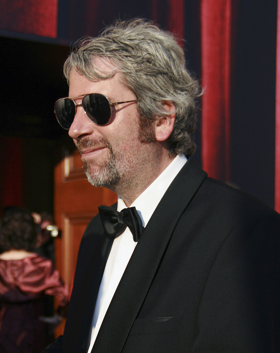 Actor Dirk Stermann at the Romy TV awards (Hofburg Imperial Palace in Vienna)